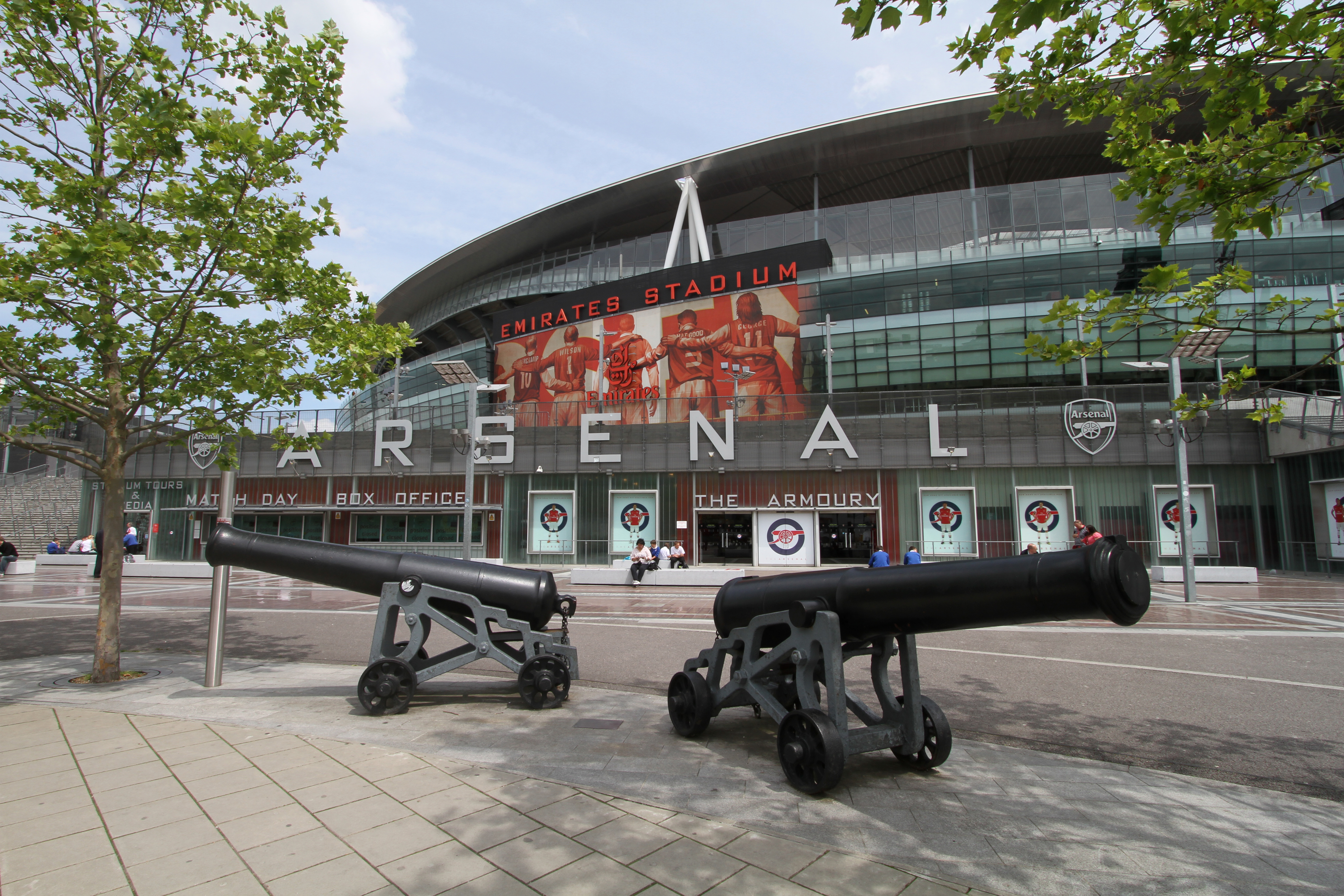 Canons at the Emirates Stadium